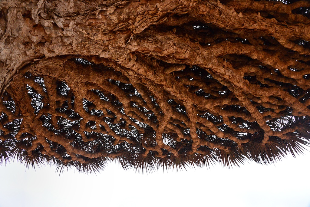 Under the Dragon's Blood Tree, Socotra